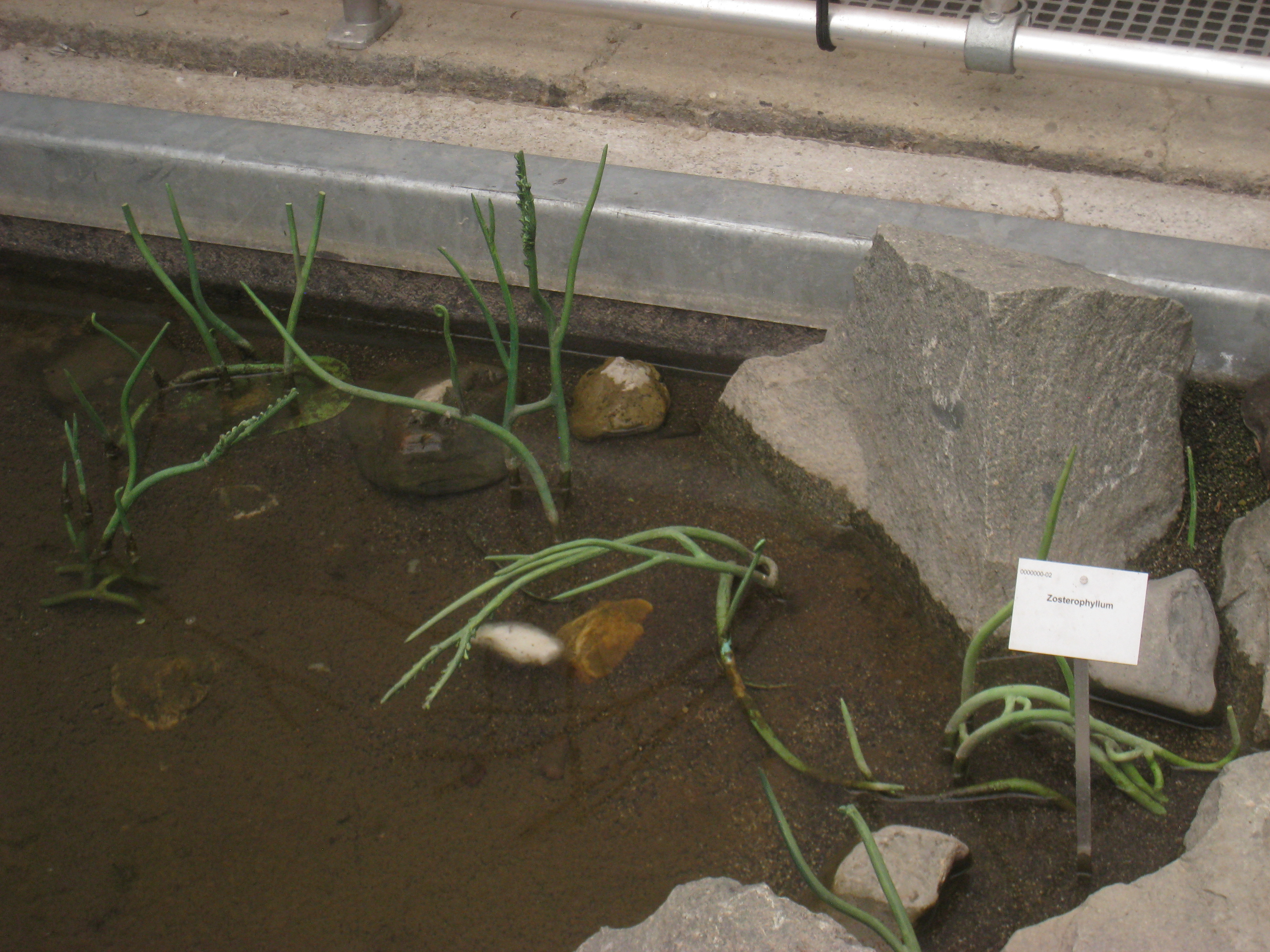 Zosterophyllum model in the National Botanic Garden of Belgium, Meise, just north of Brussels, Belgium.